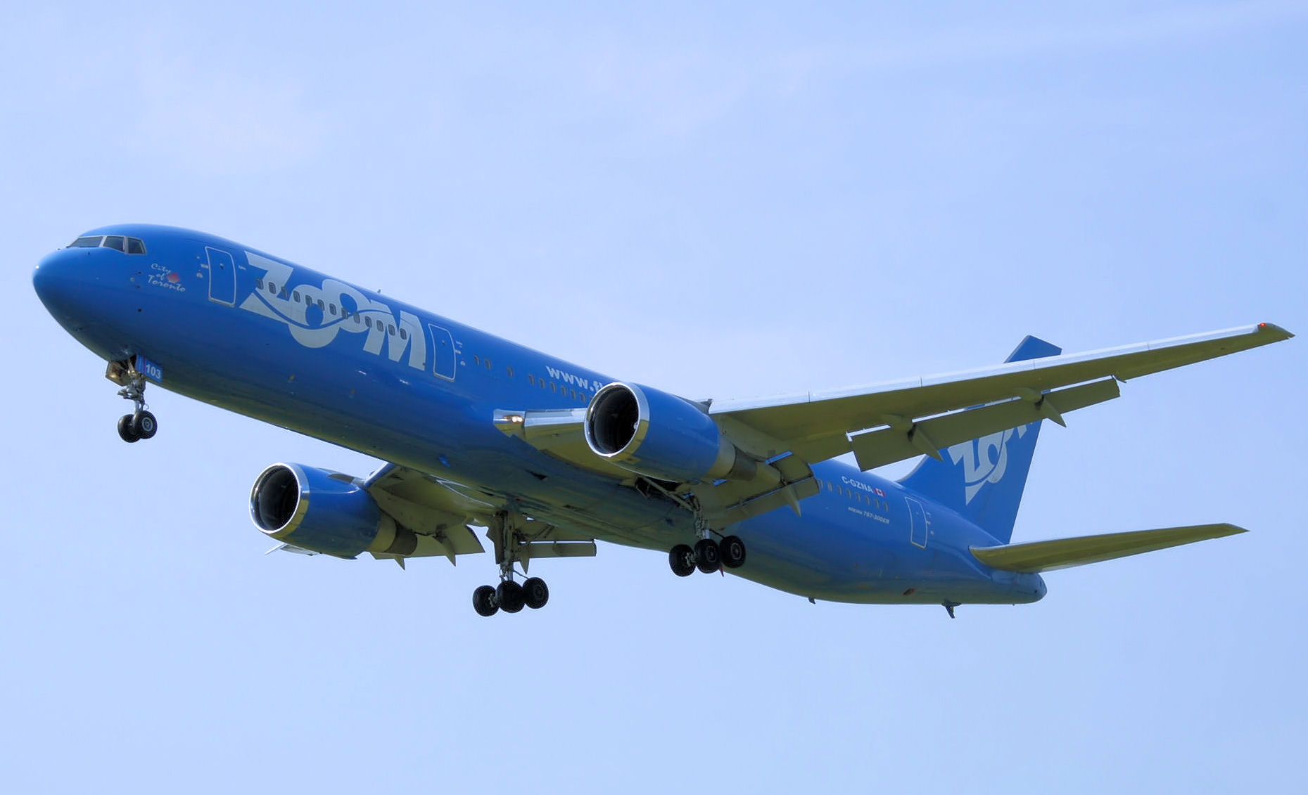 Zoom Airlines Boeing 767-300ER (C-GZNA) landing at London Gatwick Airport, England.